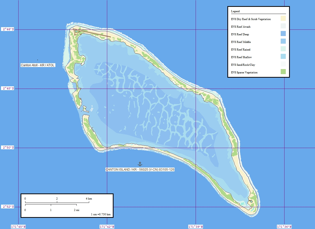 Map of Canton Atoll, Phoenix Islands, Kiribati